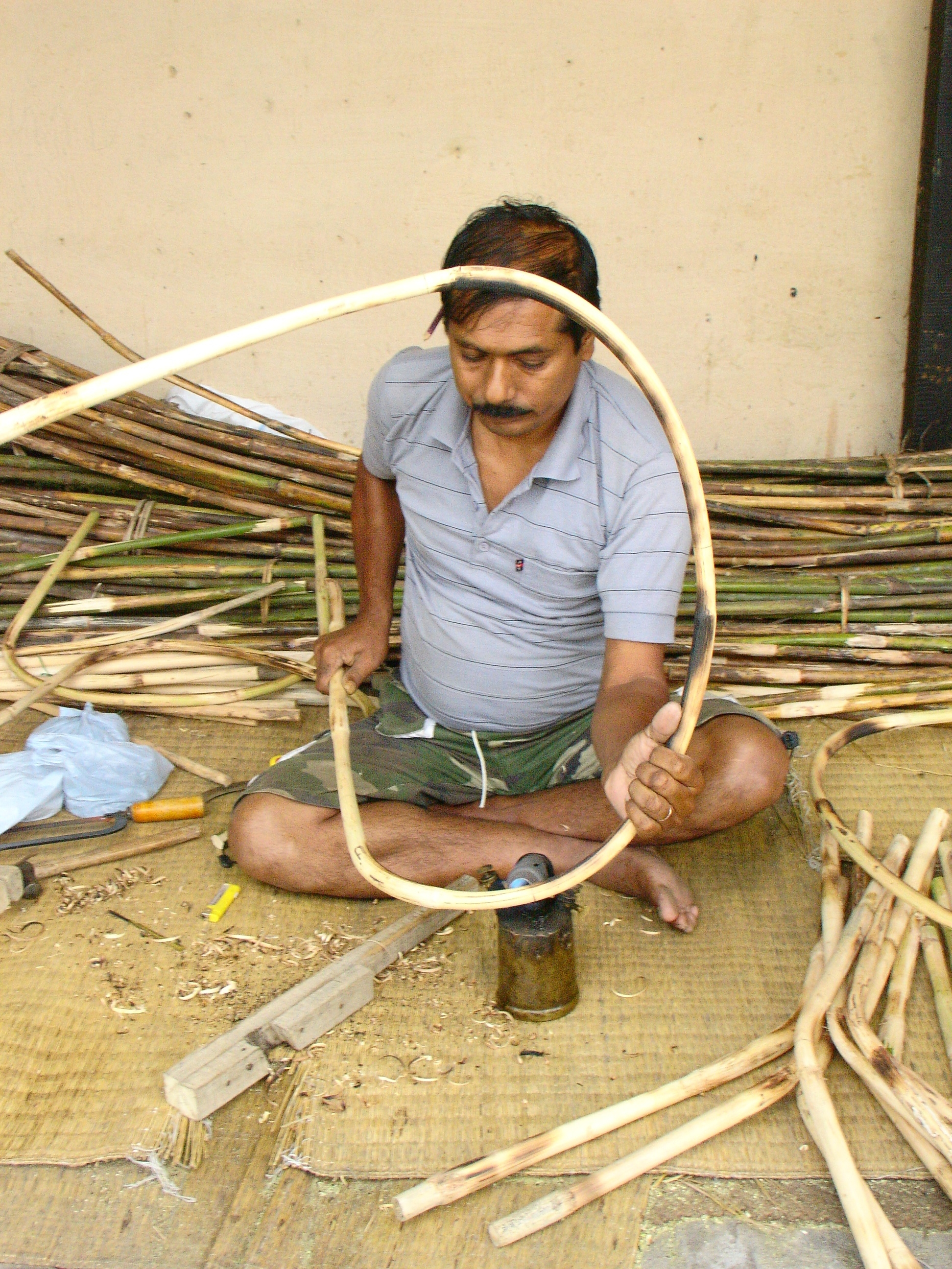 An Indian artisan making cane furniture.